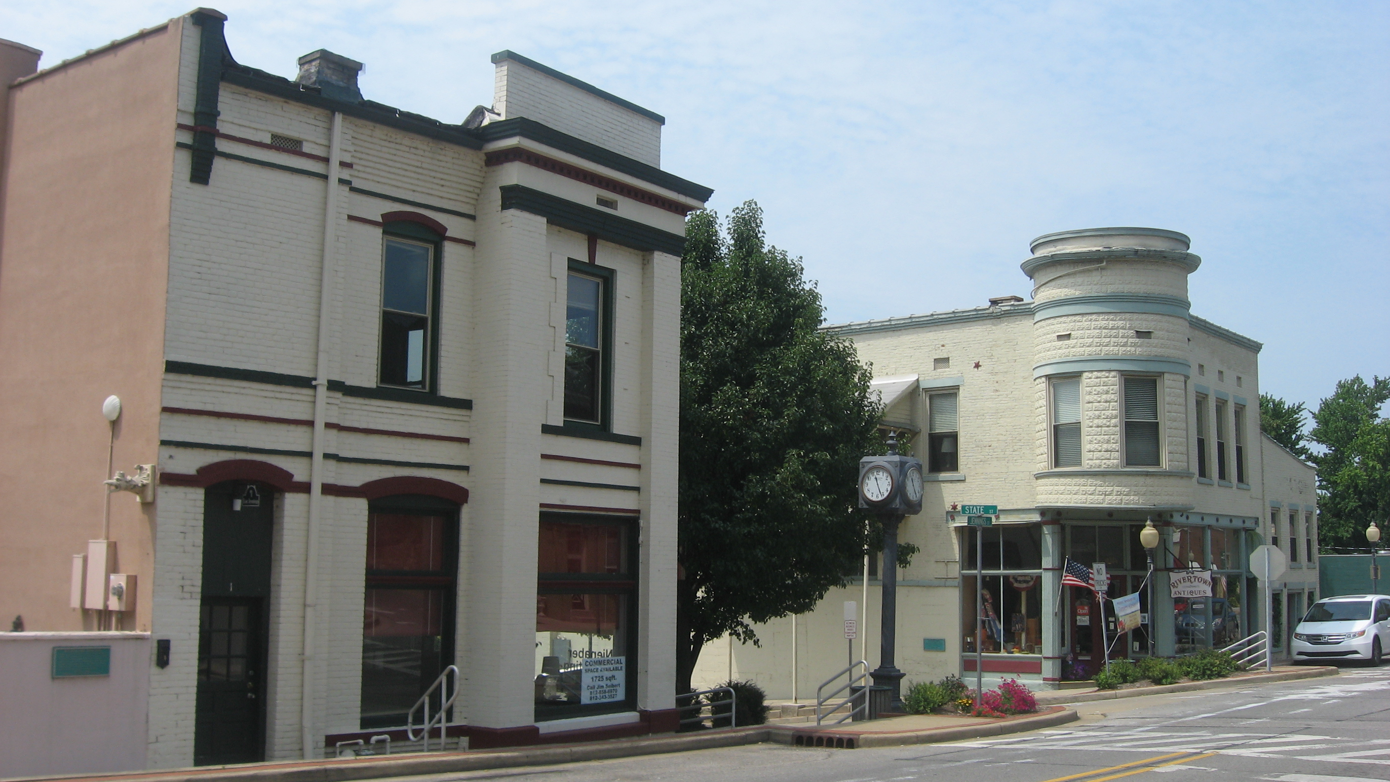 Buildings at the junction of State and Jennings Streets in downtown Newburgh, Indiana, United States. On the left is the Citizens Bank, built in 1902, and on the right is the Exchange Hotel, built in 1841. These buildings and the surrounding commercial district compose the Original Newburgh Historic District, a historic district that is listed on the National Register of Historic Places.